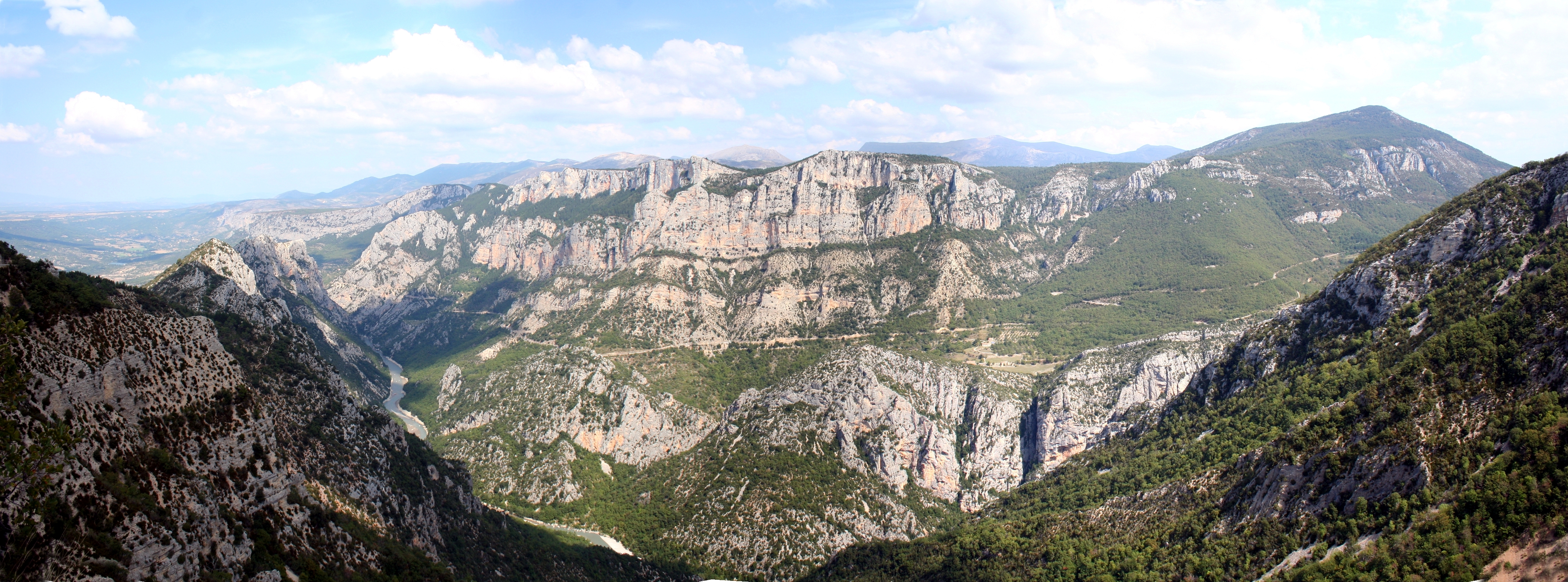 Grand Canyon de Verdon near Cirque de Vaumale